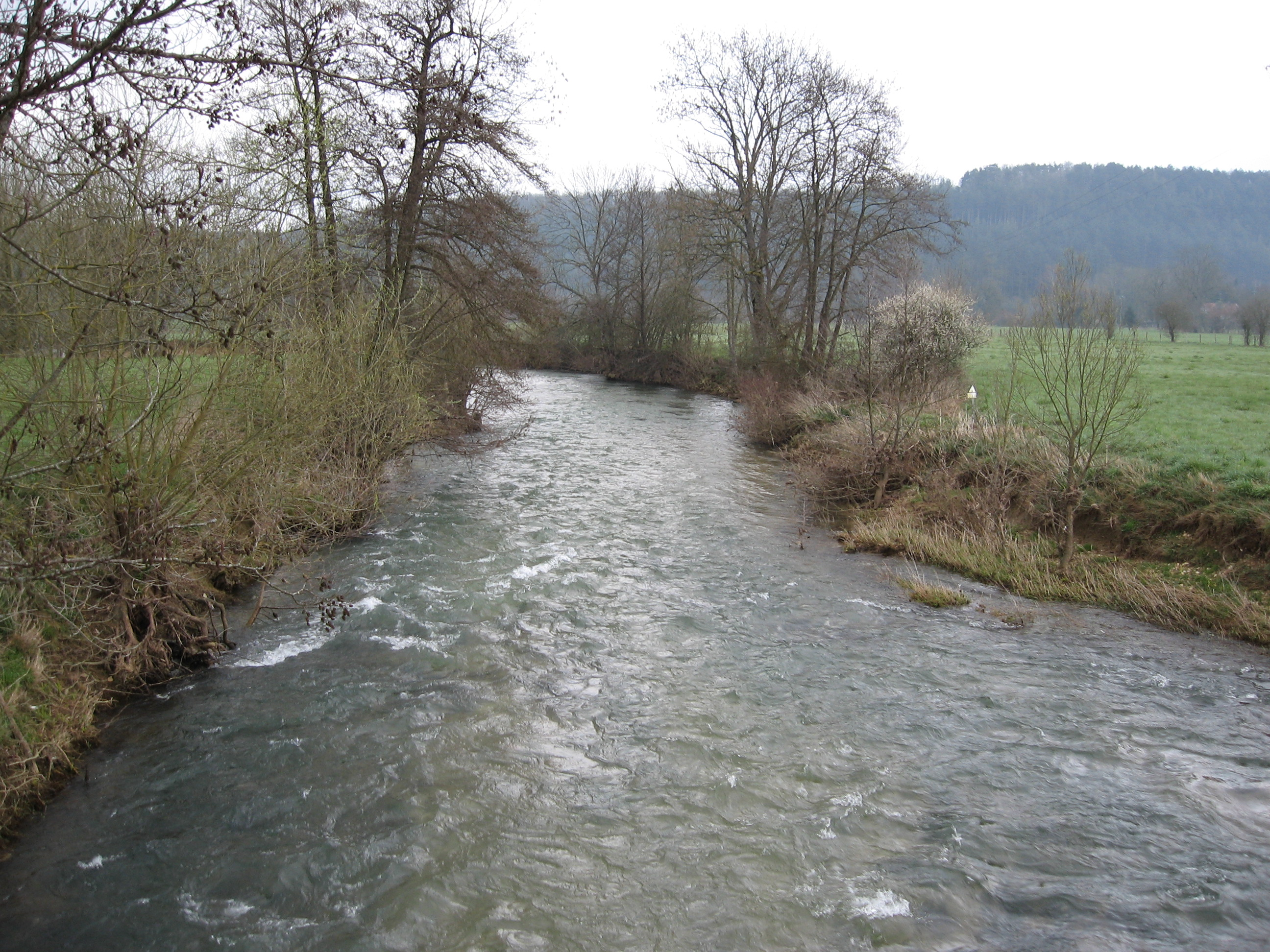 Marne river in France